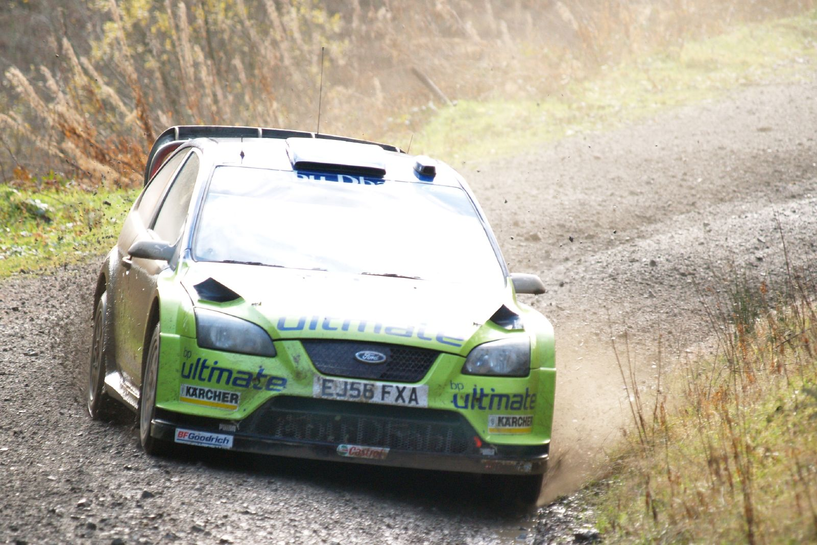 Mikko Hirvonen driving his Ford Focus RS WRC 07 during 2007 Wales Rally GB.